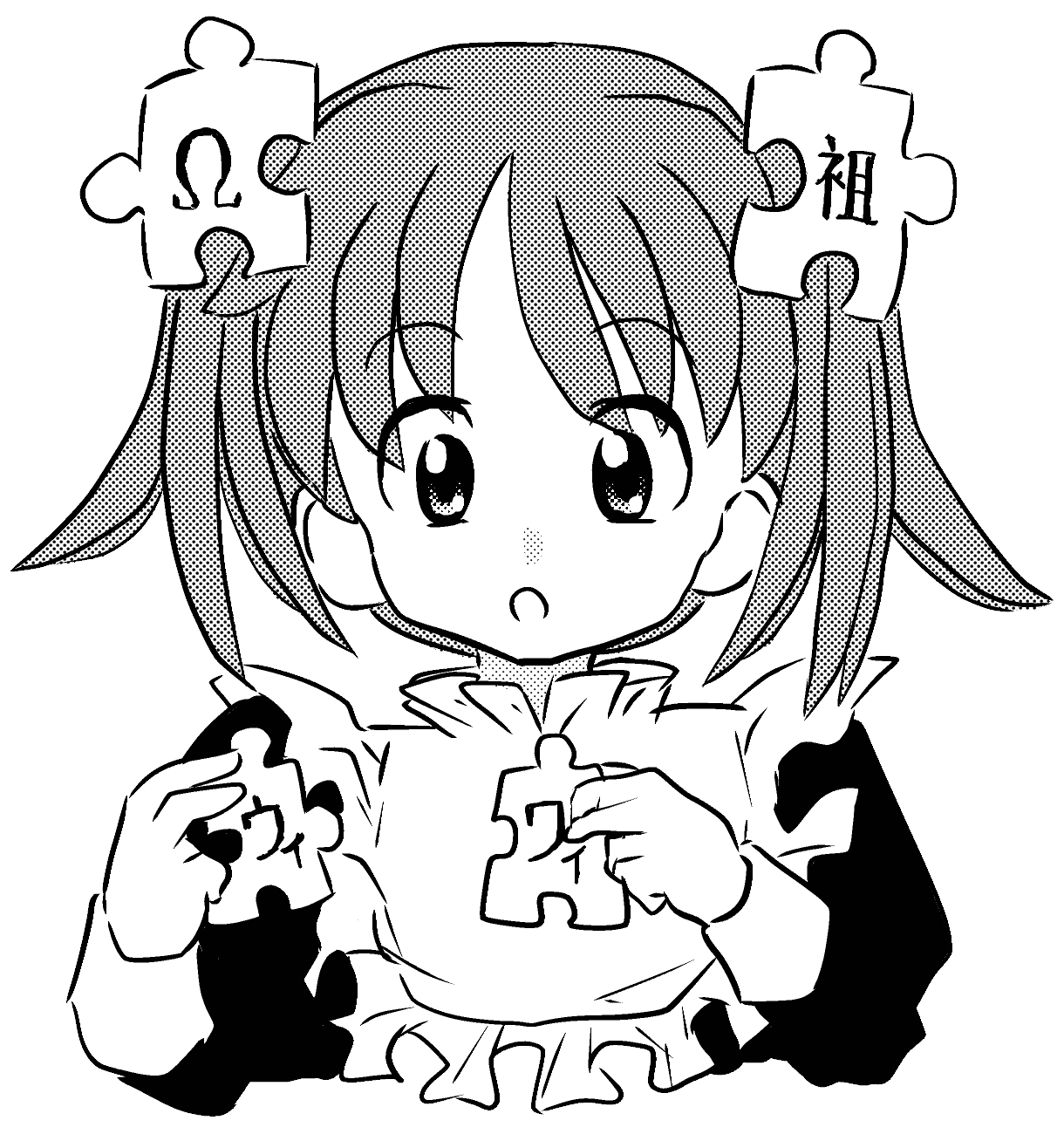 Wikipe-tan picture for the comment on Japanese Wikipedia. (see also meta:Errors in the Wikipedia logo)